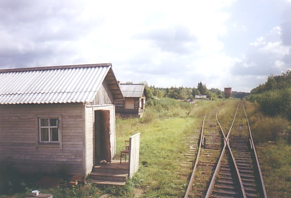 Steklyanka, Gryazovetsky District, Vologda Oblast